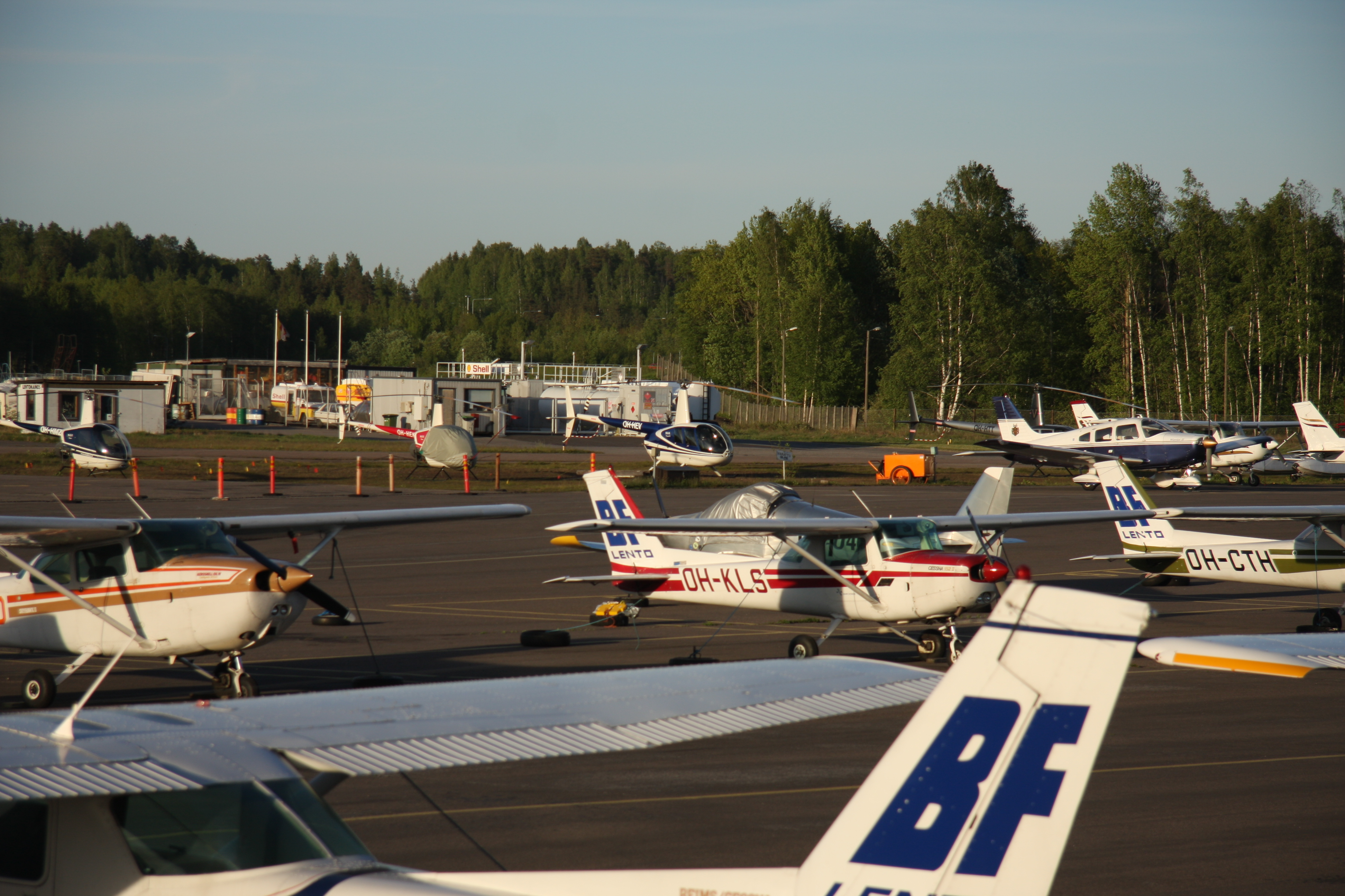 Aircraft at Helsinki-Malmi airport, Helsinki, Finland.